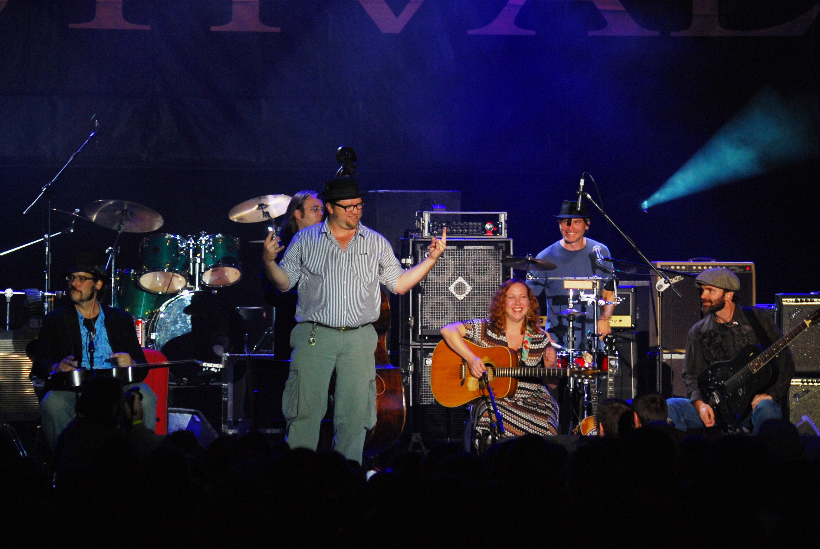 Asylum Street Spankers during 27. edition of Rawa Blues Festival